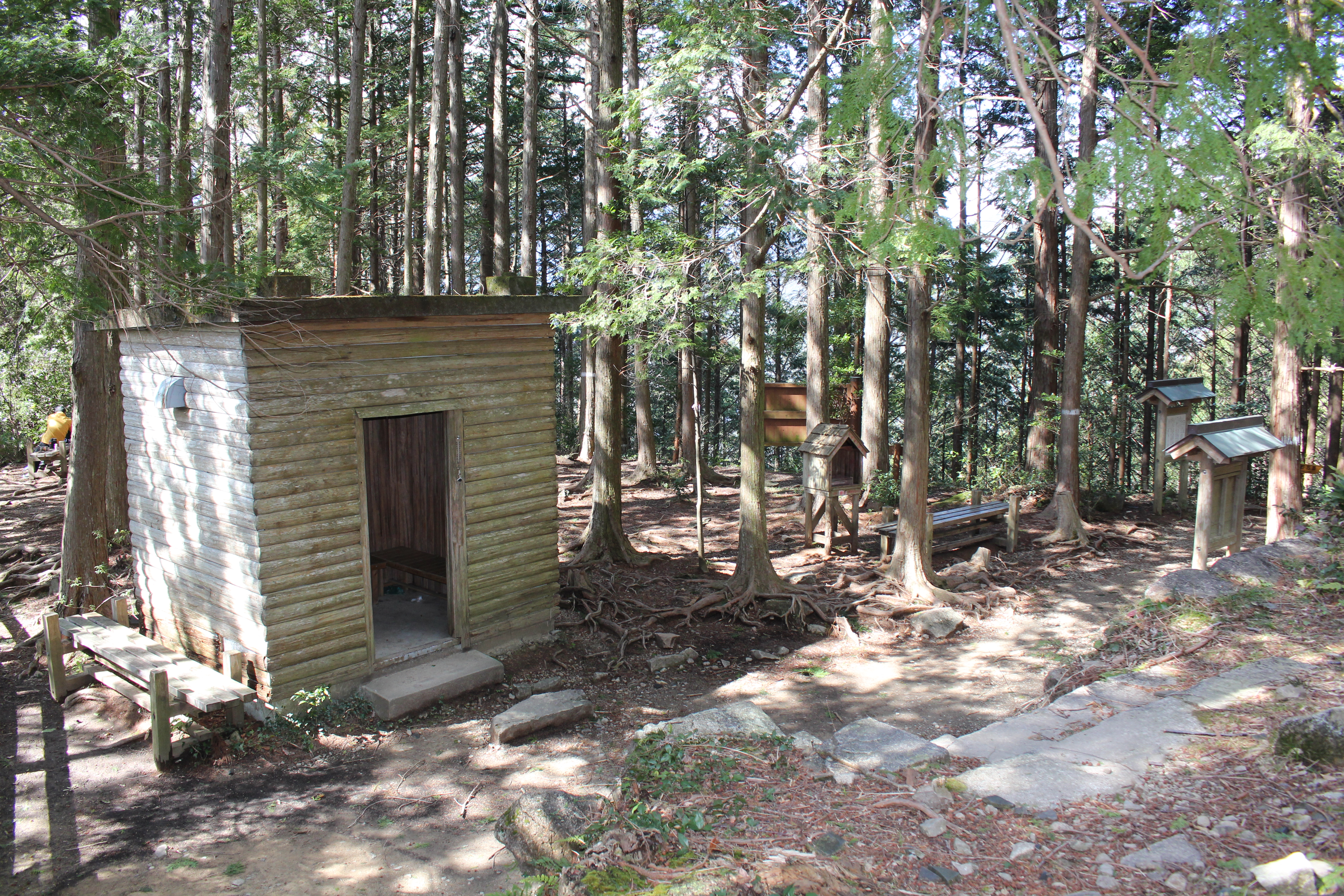 Magose pass on Kumano Kodō, Owase, Mie prefecture, Japan.